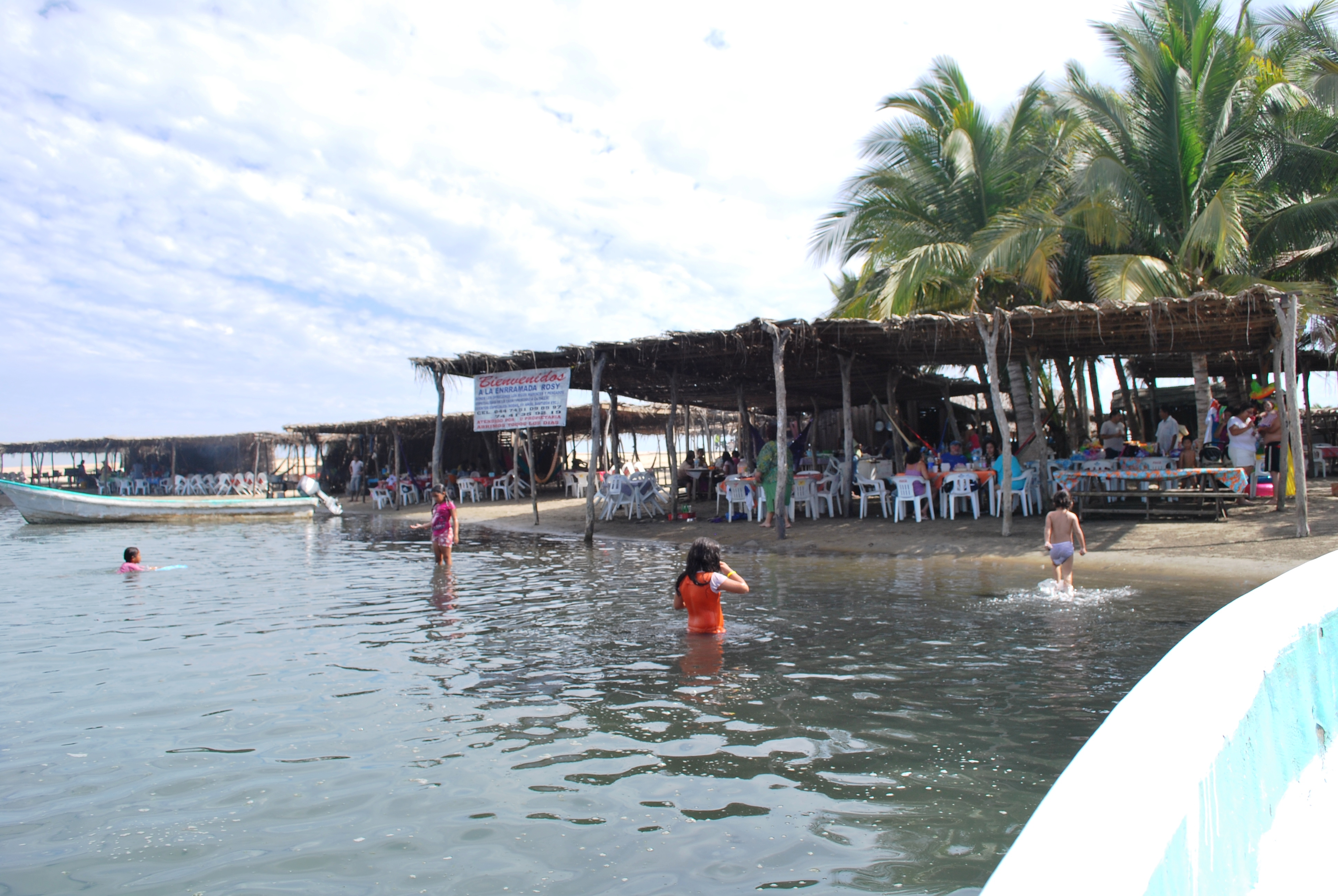 Palapas on Pico del Monte beach on Chautengo lagoon